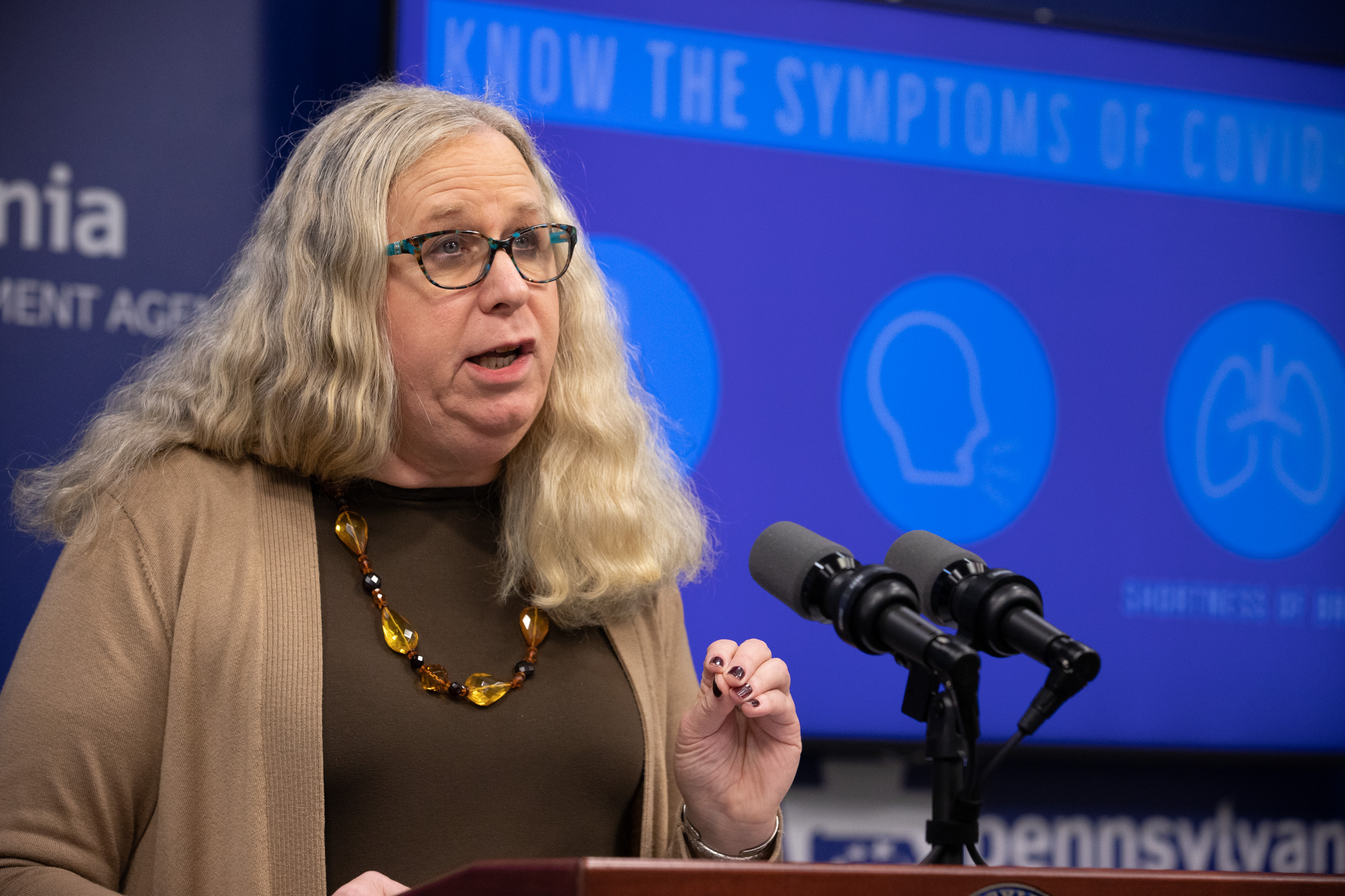 Secretary of Health Dr. Rachel Levine speaking at the virtual press conference. The Pennsylvania Department of Health today confirmed as of 12:00 a.m., March 20, that there are 83 additional positive cases of COVID-19 reported, bringing the statewide total to 268. County-specific information and a statewide map are available here. All people are either in isolation at home or being treated at the hospital. Harrisburg, PA- March 20, 2020